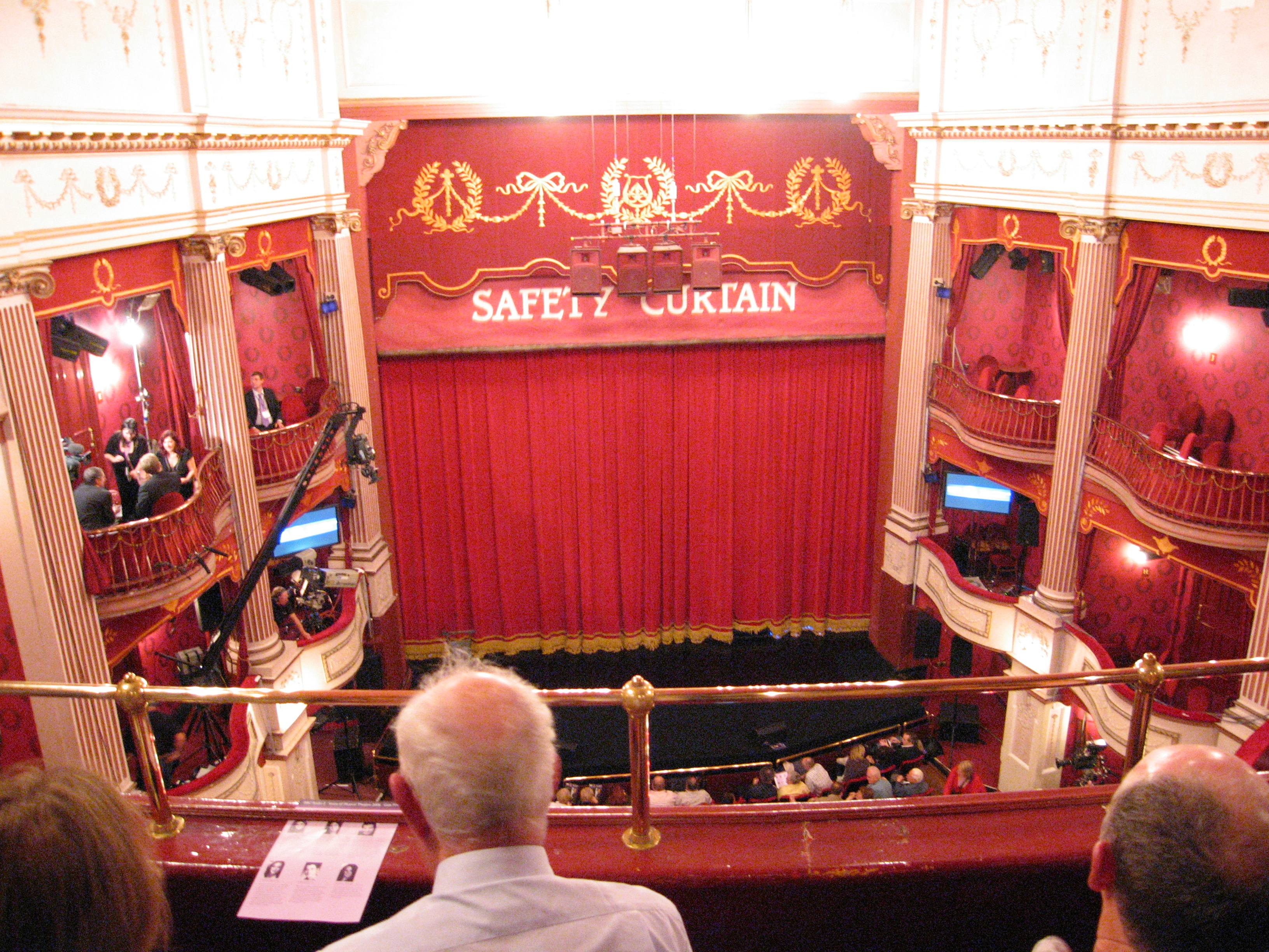 New Theatre, Cardiff, Wales 21 Oct 2006. Template:Welsh